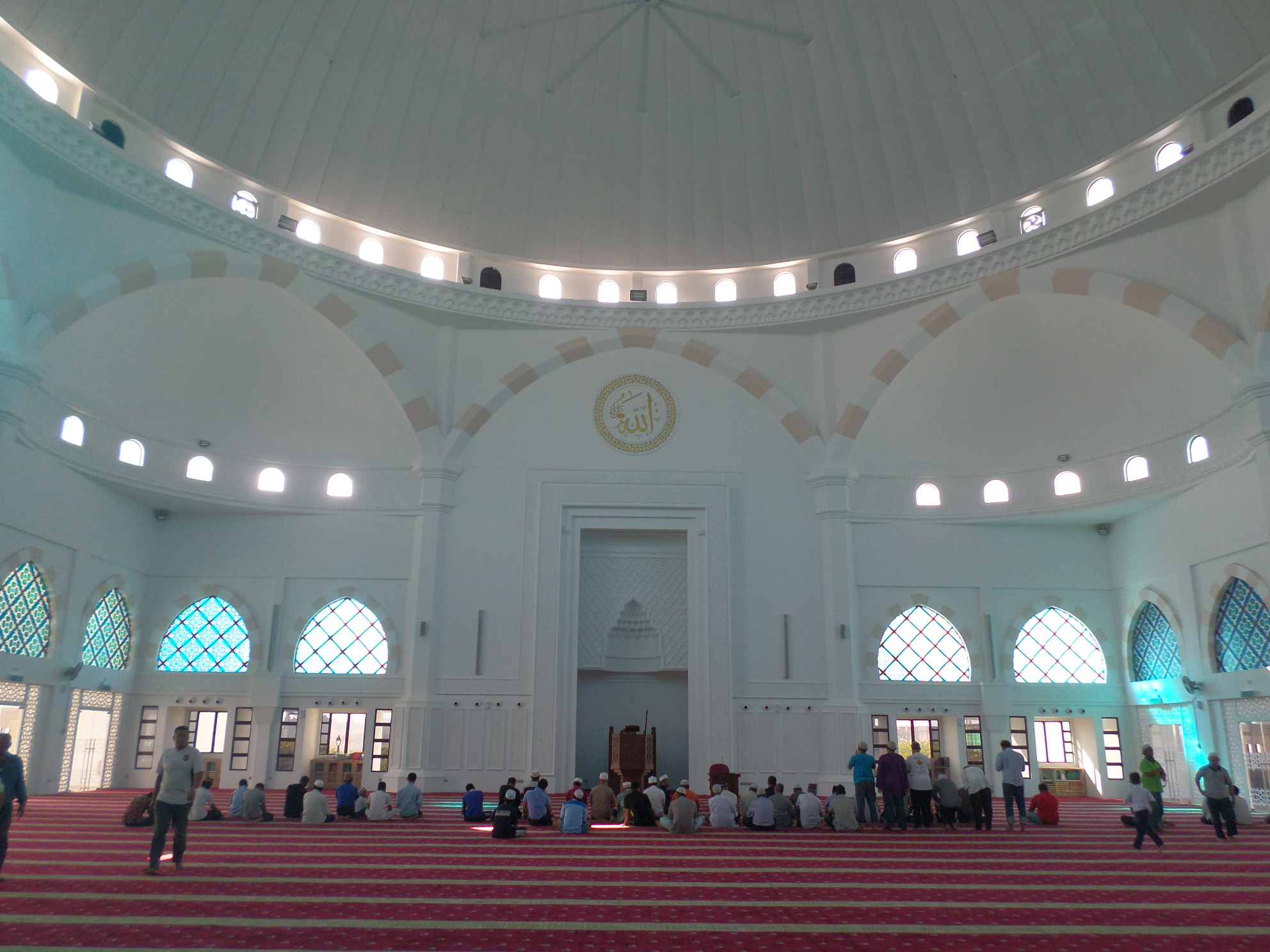 Bandar Dato' Onn Mosque, Bandar Dato' Onn, Tebrau, Johor Bahru, Johor, Malaysia